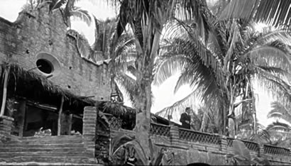 Night the Iguana Original Movie Set in Mismaloya. It is since abandoned and for public view